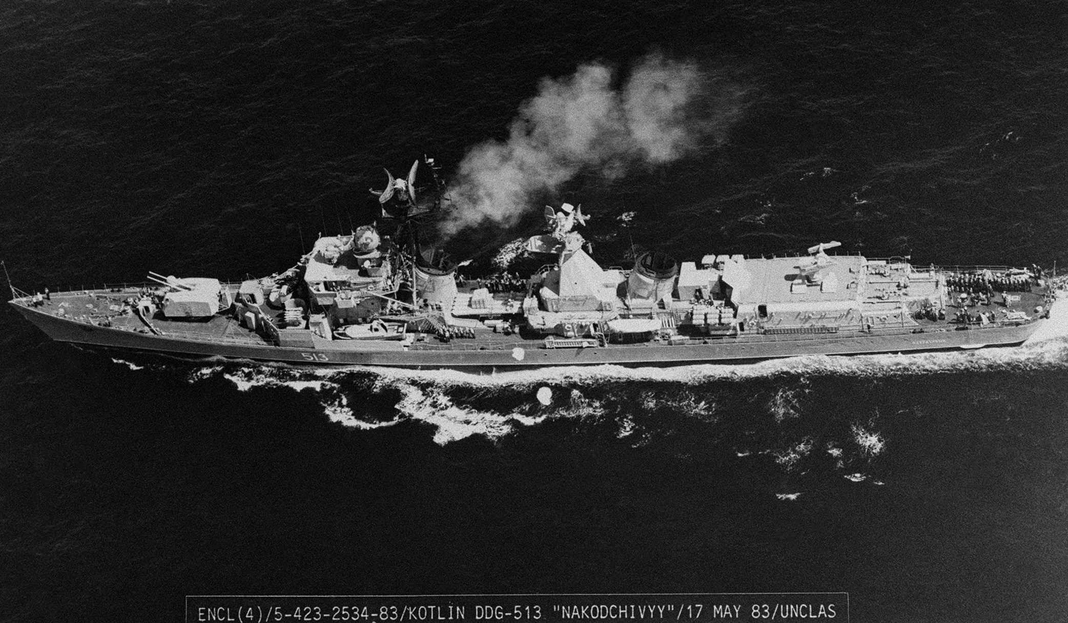 An aerial port beam view of the Soviet project 56A destroyer (NATO - SAM Kotlin class guided missile destroyer) Nakhodchivyy underway..